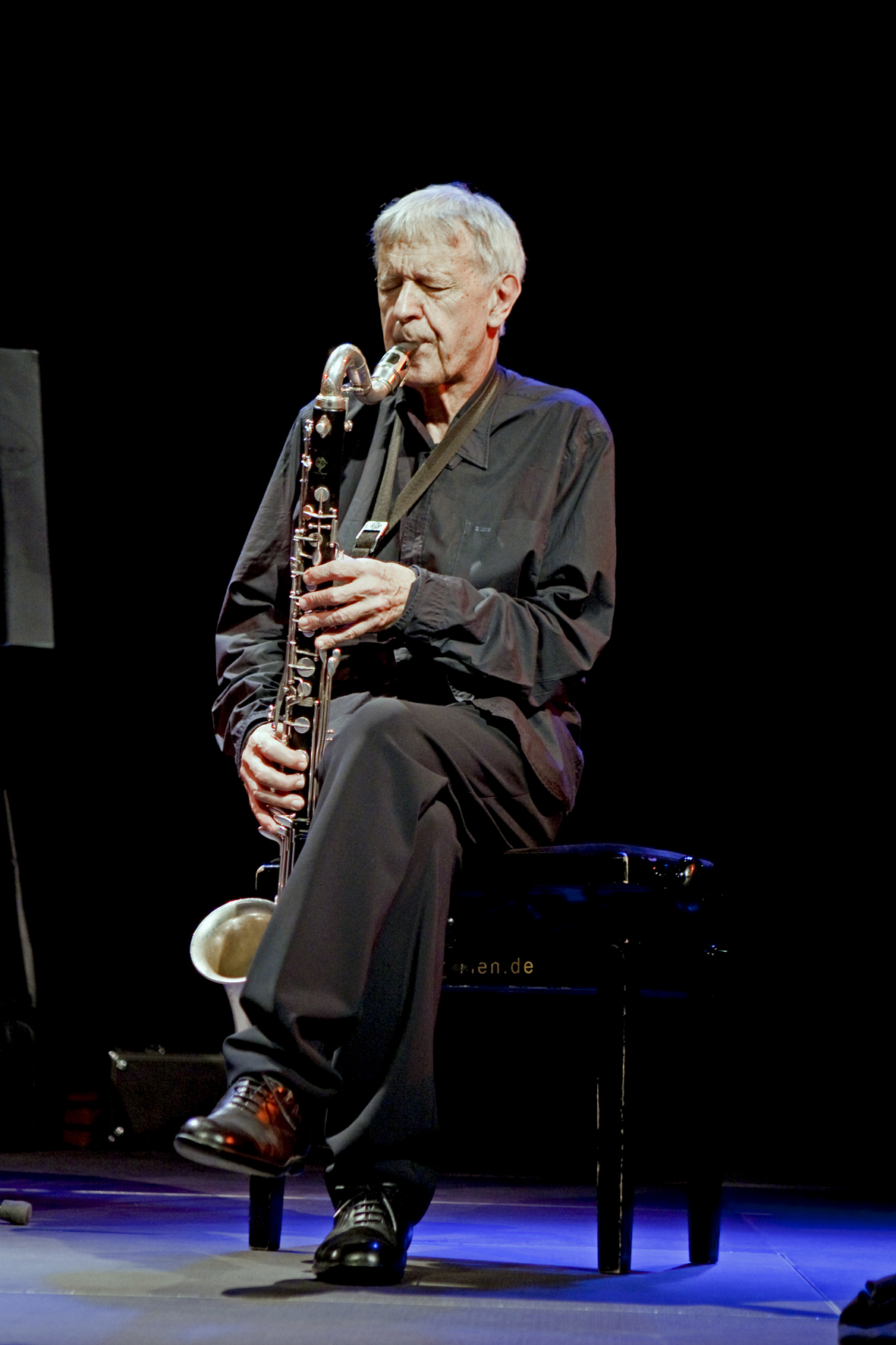 French jazz musician Michel Portal at Dortmund, Domicil